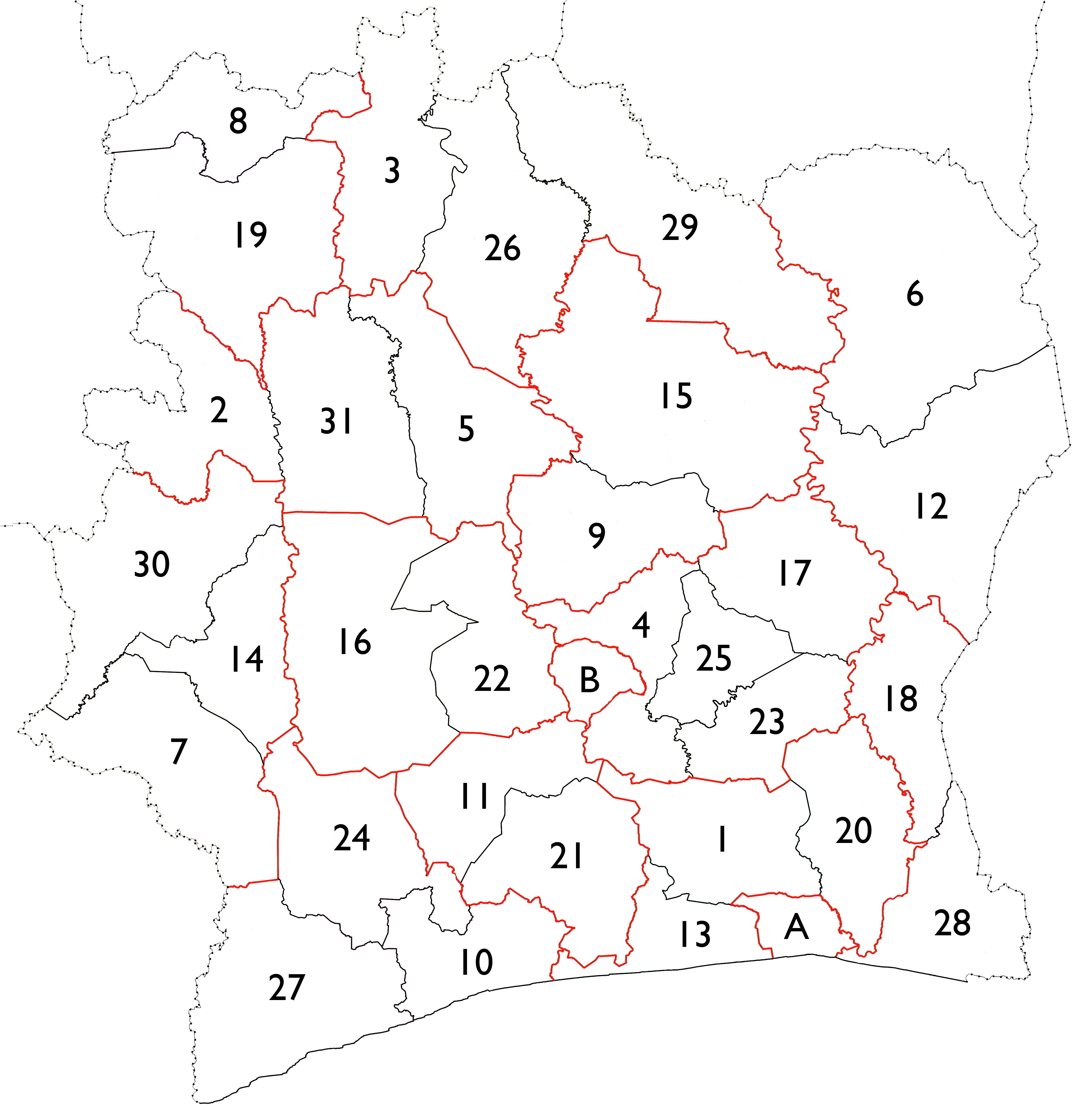 Locator map for the 31 regions of Côte d'Ivoire. These are the second-level administrative subdivision regions that were created in 2011–12. The 14 first-level administrative subdivision districts are created by combining two to four regions; their borders are marked in red. Key: 1. Agnéby-Tiassa 2. Bafing 3. Bagoué 4. Bélier 5. Béré 6. Bounkani 7. Cavally 8. Folon 9. Gbeke 10. Gbôkle 11. Gôh 12. Gontougo 13. Grands Ponts 14. Guémon 15. Hambol 16. Haut-Sassandra 17. Iffou 18. Indénié-Djuablin 19. Kabadougou 20. La Mé (Massan) 21. Lôh-Djiboua 22. Marahoué 23. Moronou 24. Nawa 25. N'Zi 26. Poro 27. San-Pédro 28. Sud-Comoé 29. Tchologo 30. Tonkpi 31. Worodougou A. Autonomous District of Abidjan (not a region or divided into regions) B. Autonomous District of Yamoussoukro (not a region or divided into regions)